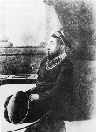 Murshid_Quli_Khan